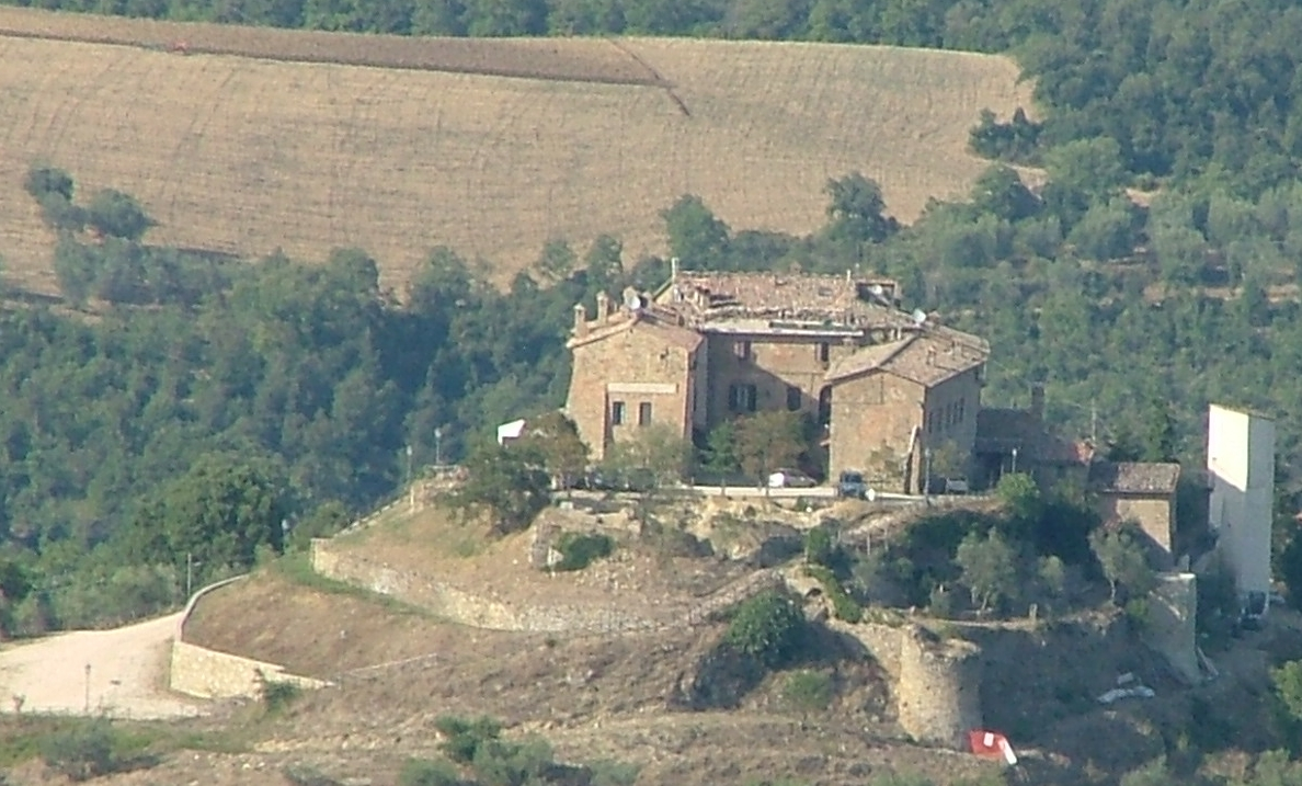 The old castle of Migliano, near Marsciano (Umbria)